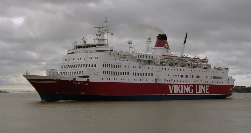 M/S Rosella departing Helsinki